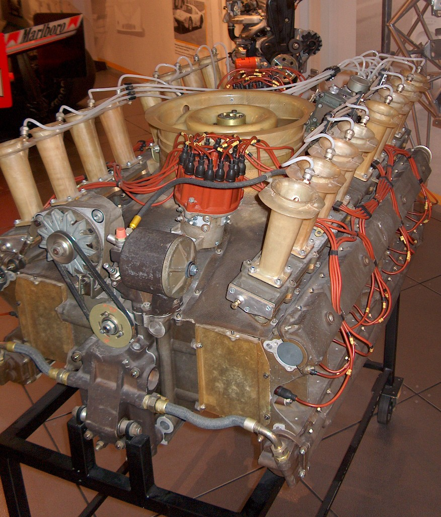 Porsche experimental 16 cylinder racing engine built for the US Can-Am series. This engine was never used in a race. The engine was displayed in the old Porsche Museum (since replaced) in Stuttgart, Germany.